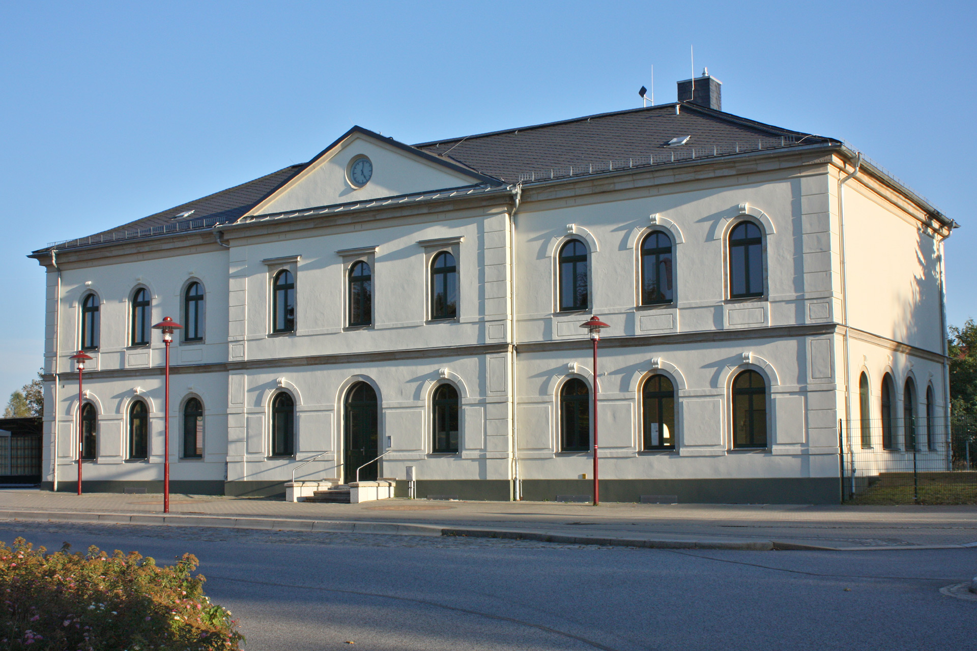 Train station in Bischofswerda in the district of Bautzen in Saxony, Germany.